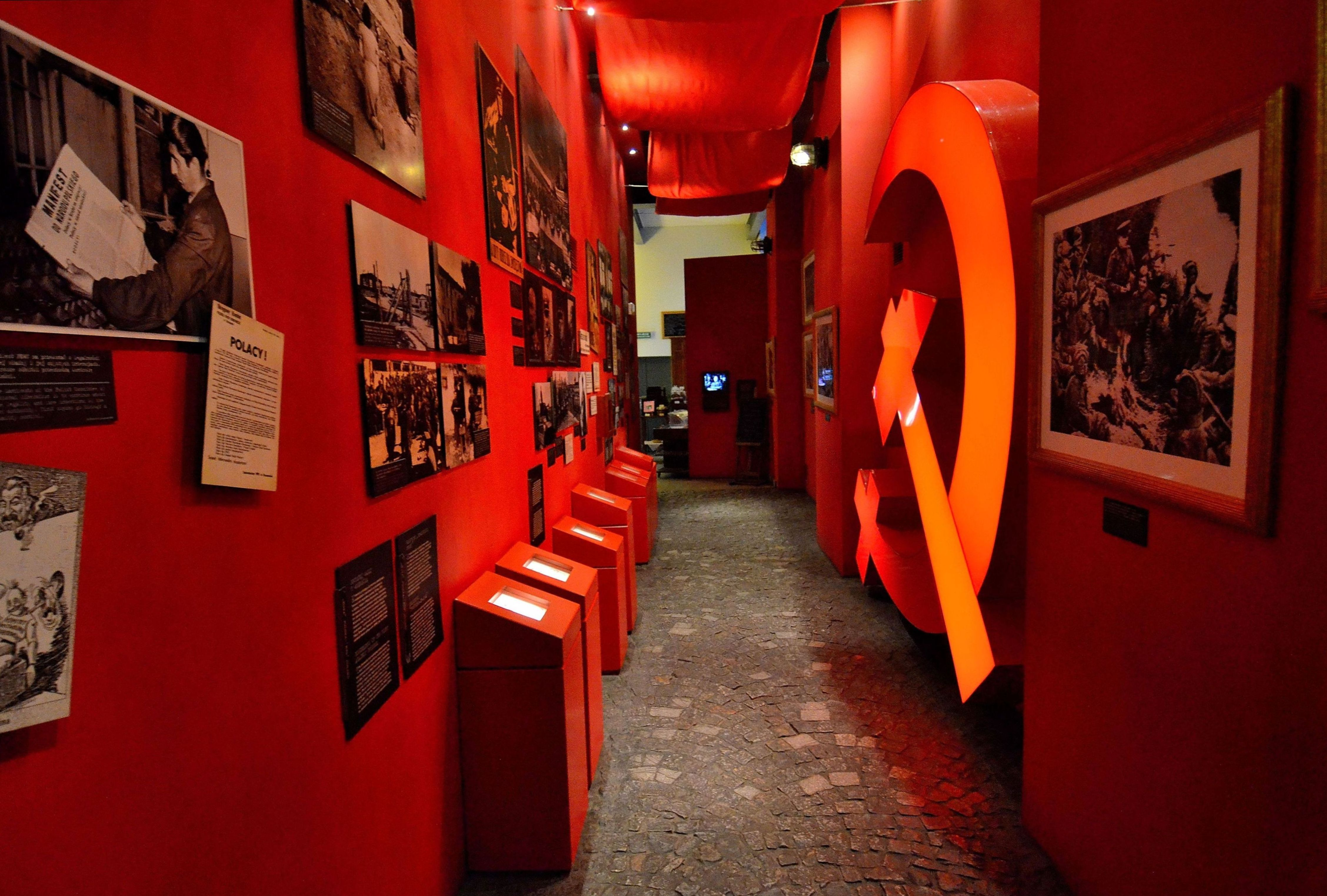 Exhibition "Lublin's Poland" at the Warsaw Uprising Museum